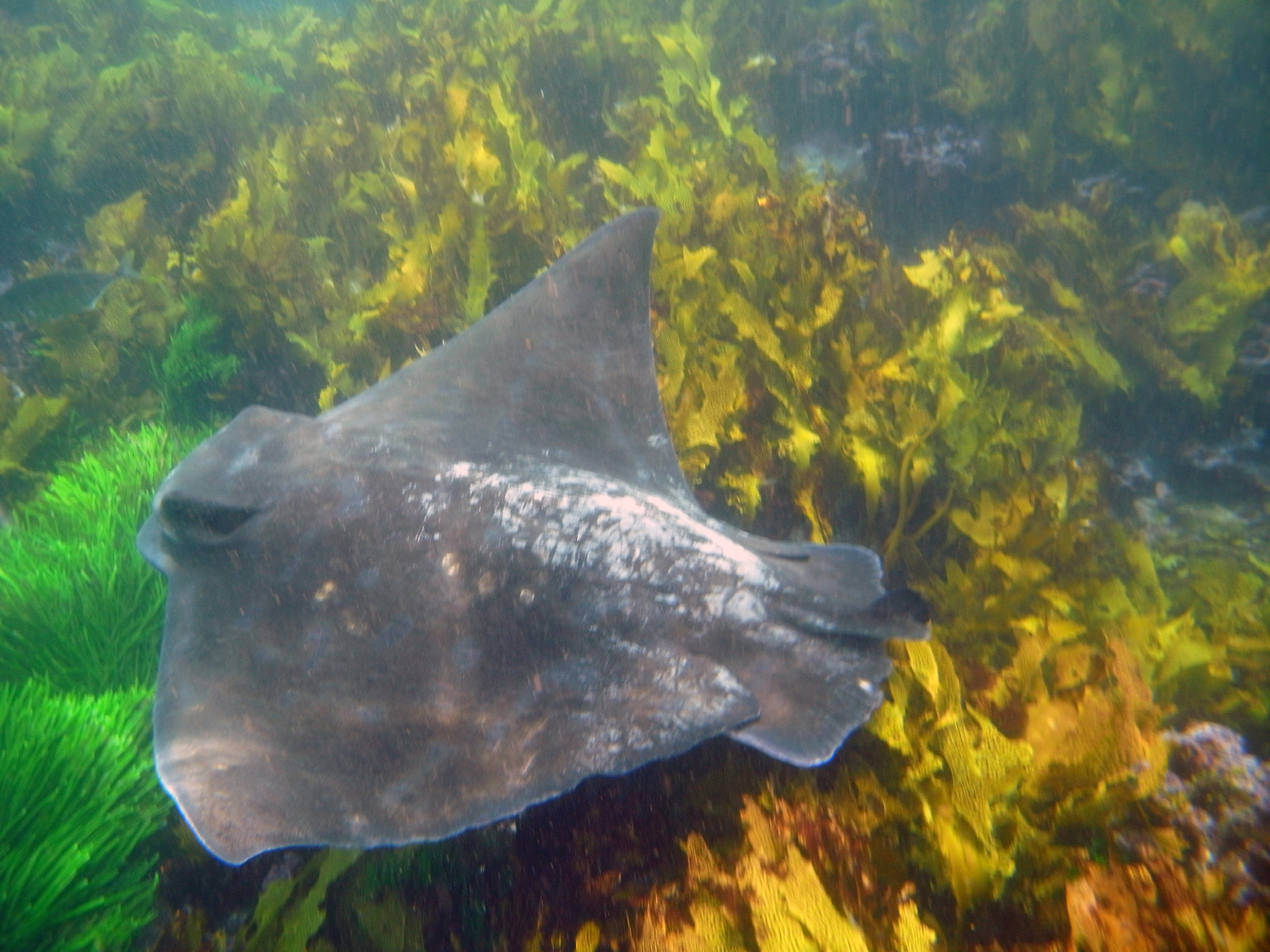 Southern eagle ray (Myliobatis australis)